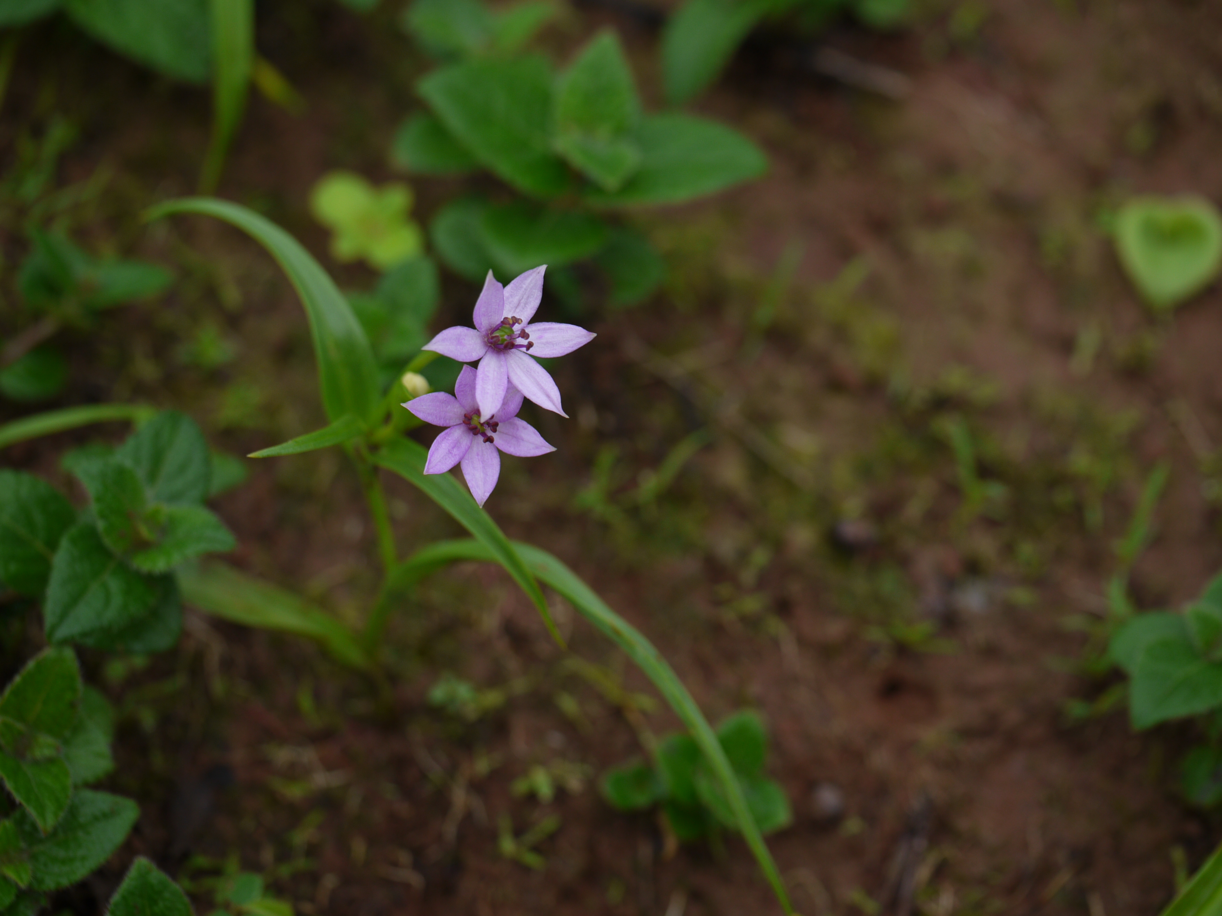 Colchicaceae (Colchicum family) » Iphigenia stellata Blatt. ¿ if-uh-juh-NY-uh ? -- ¿ the genus named for ? daughter of Clytemnestra and Agamemnon ... Wiktionary stell-AY-tuh -- with spreading, star-like rays ... Dave's Botanary commonly known as: star grass lily • Marathi: गुलाबी भुईचक्र gulabi bhuichakra Endemic to: Western Ghats (of India) References: Flowers of India • Further Flowers of Sahyadri by Shrikant Ingalhalikar